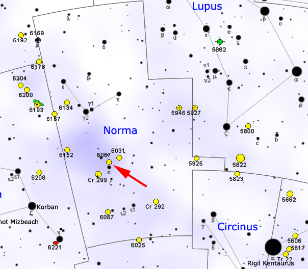 Map of NGC 6067